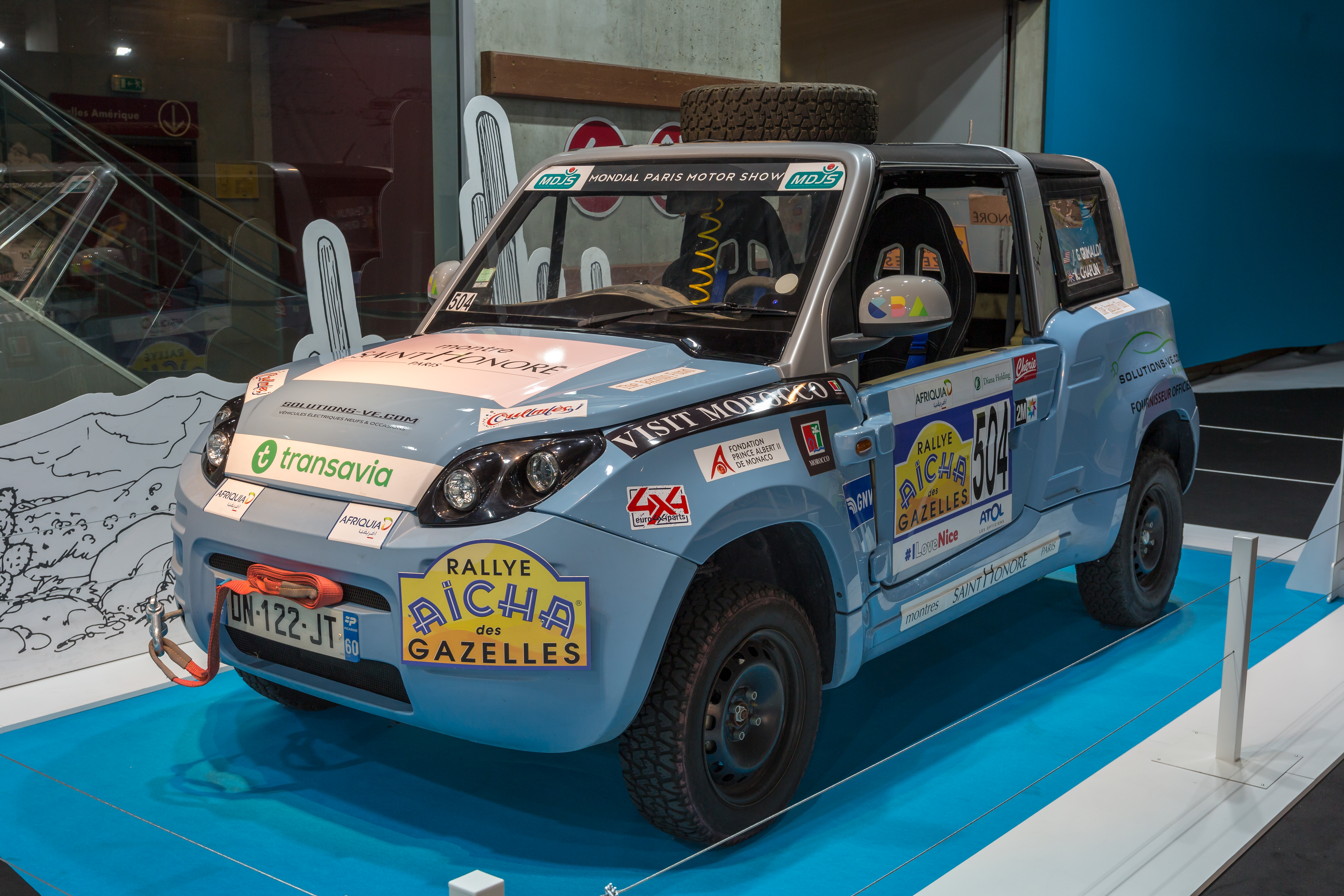 Bolloré Bluesummer, Press days at Mondial Paris Motor Show 2018